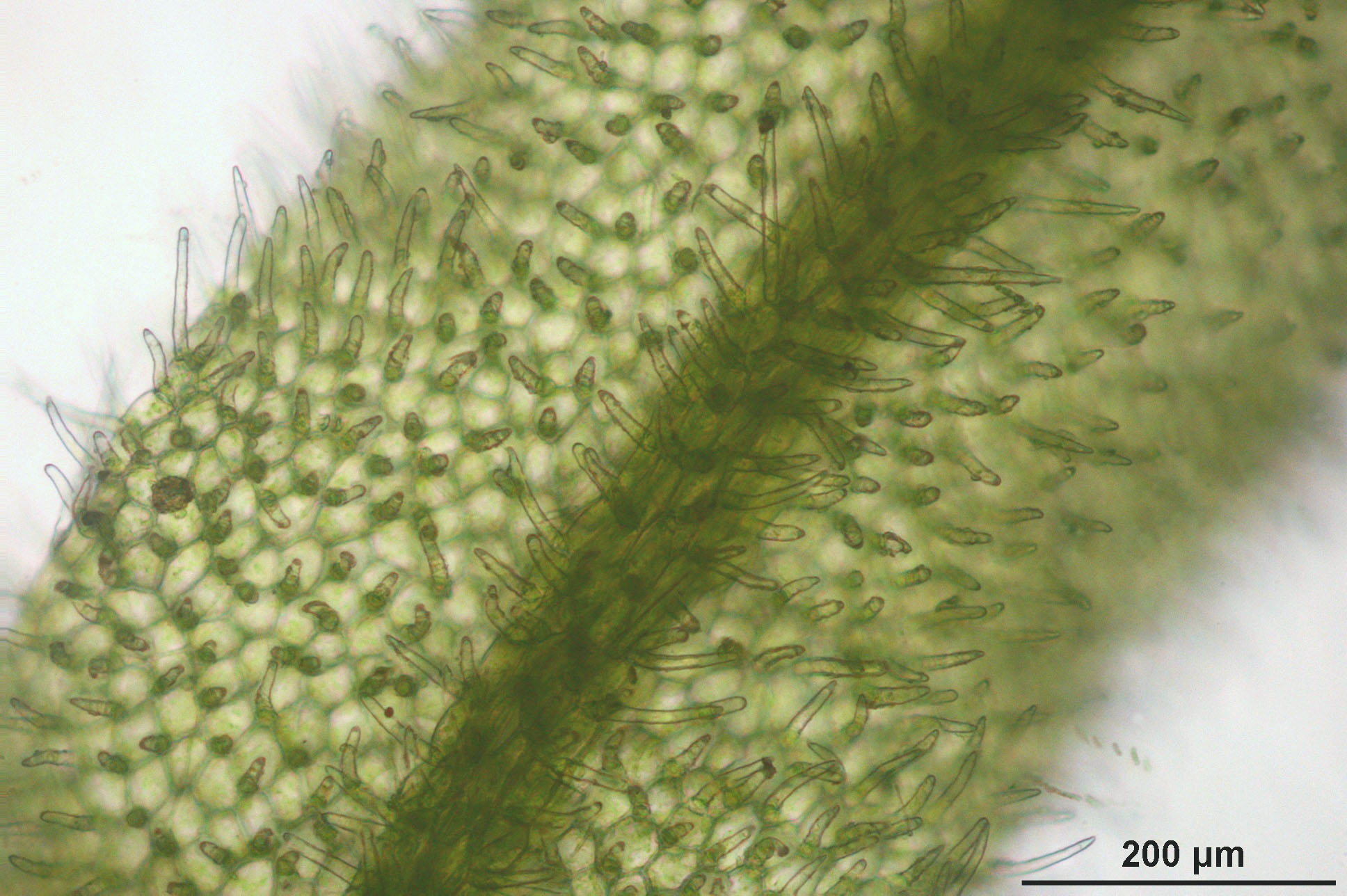 Apometzgeria pubescens